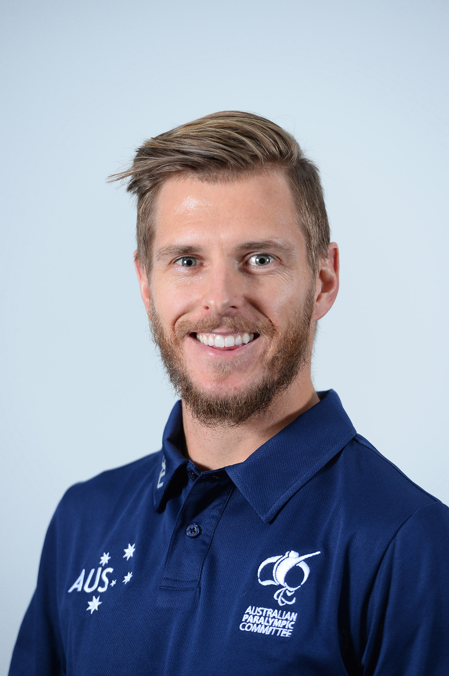 Portrait photograph of Michael Roeger taken at team processing session for shadow members of 2016 Australian Paralympic team